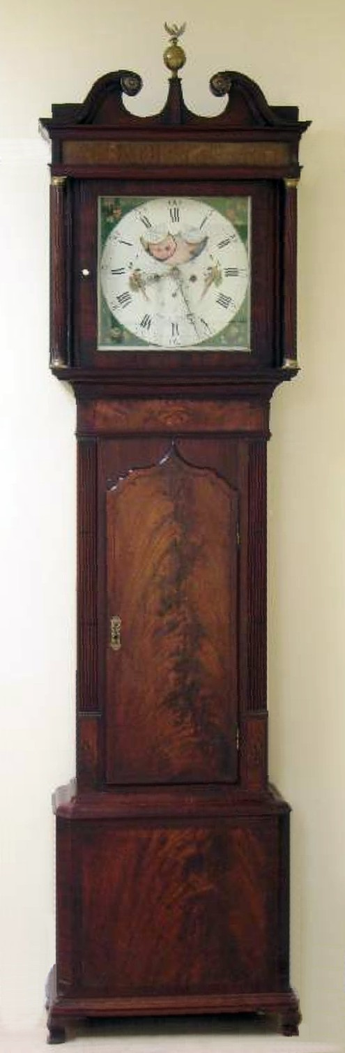 Georgian Longcase Clock with square dial having rolling moon movement, inscribed Alker of Wigan, subsidiary seconds dial, 8-day striking movement in mahogany case with butterfly inlay and stinging, hood with fluted columns and swan neck surmount